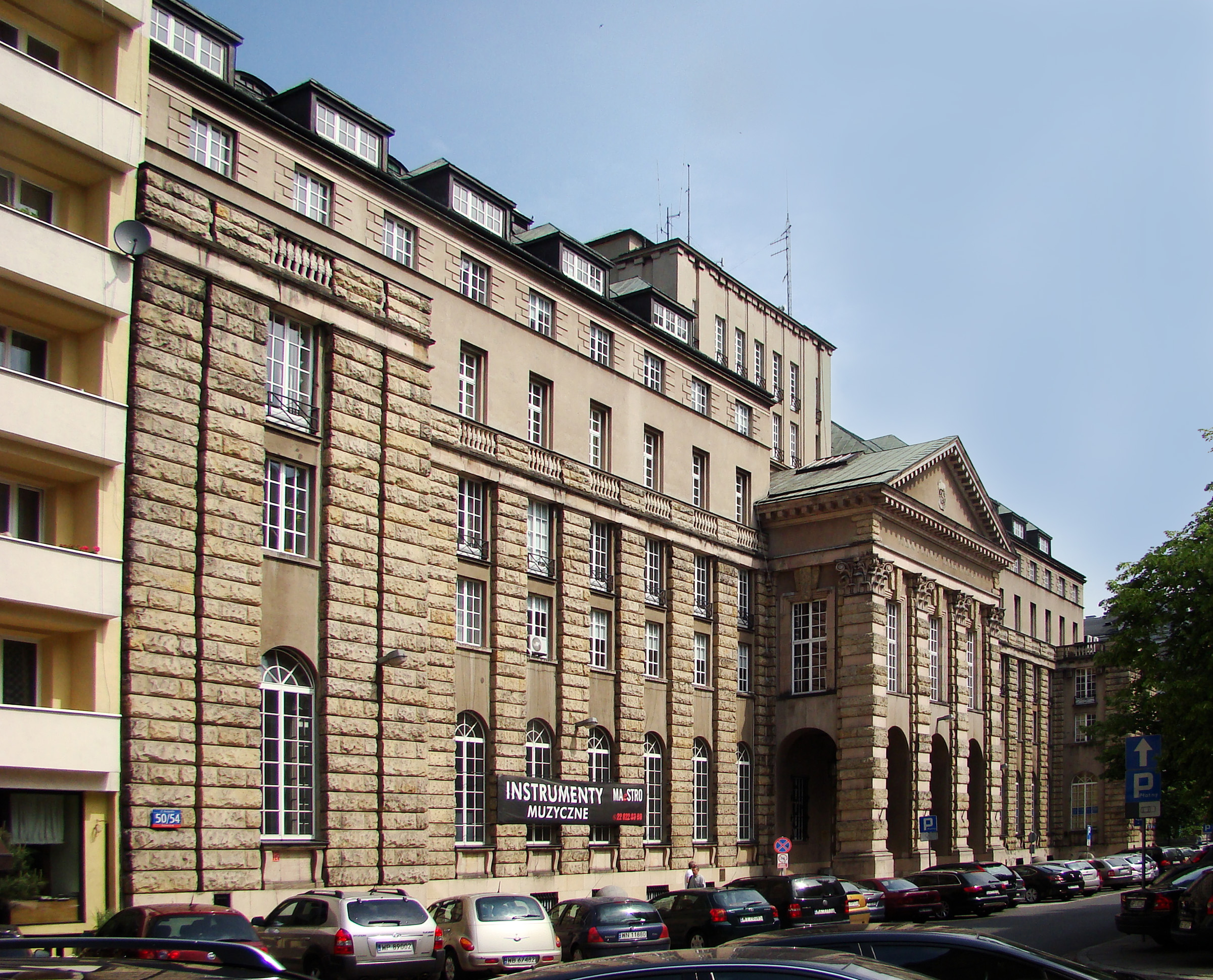 Bank of Agriculture in Warsaw